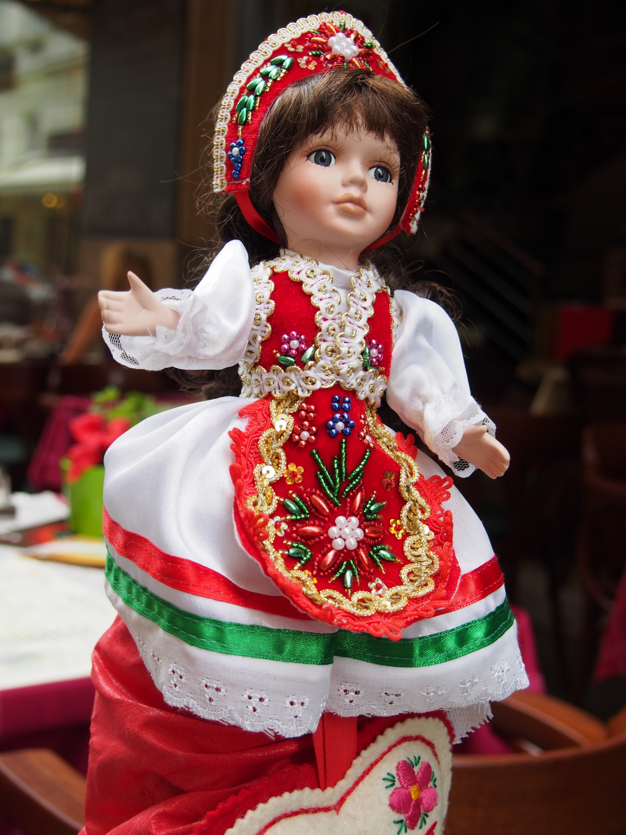 Doll ini Hungarian folklore costume. Српски (ћирилица): Мађарски фолклор.